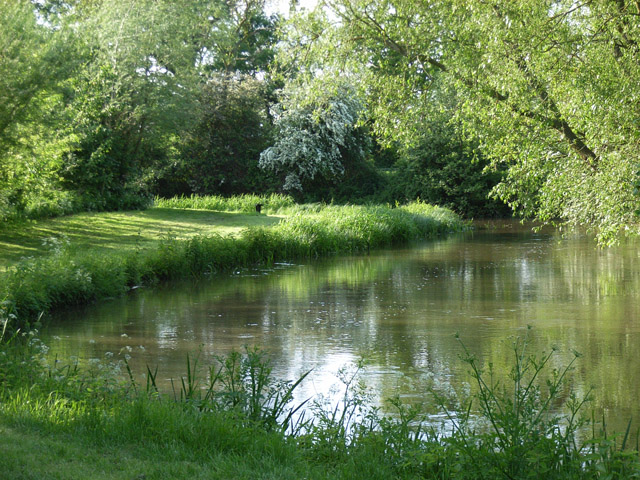 River Loddon. Looking upriver, west of the Fishery.